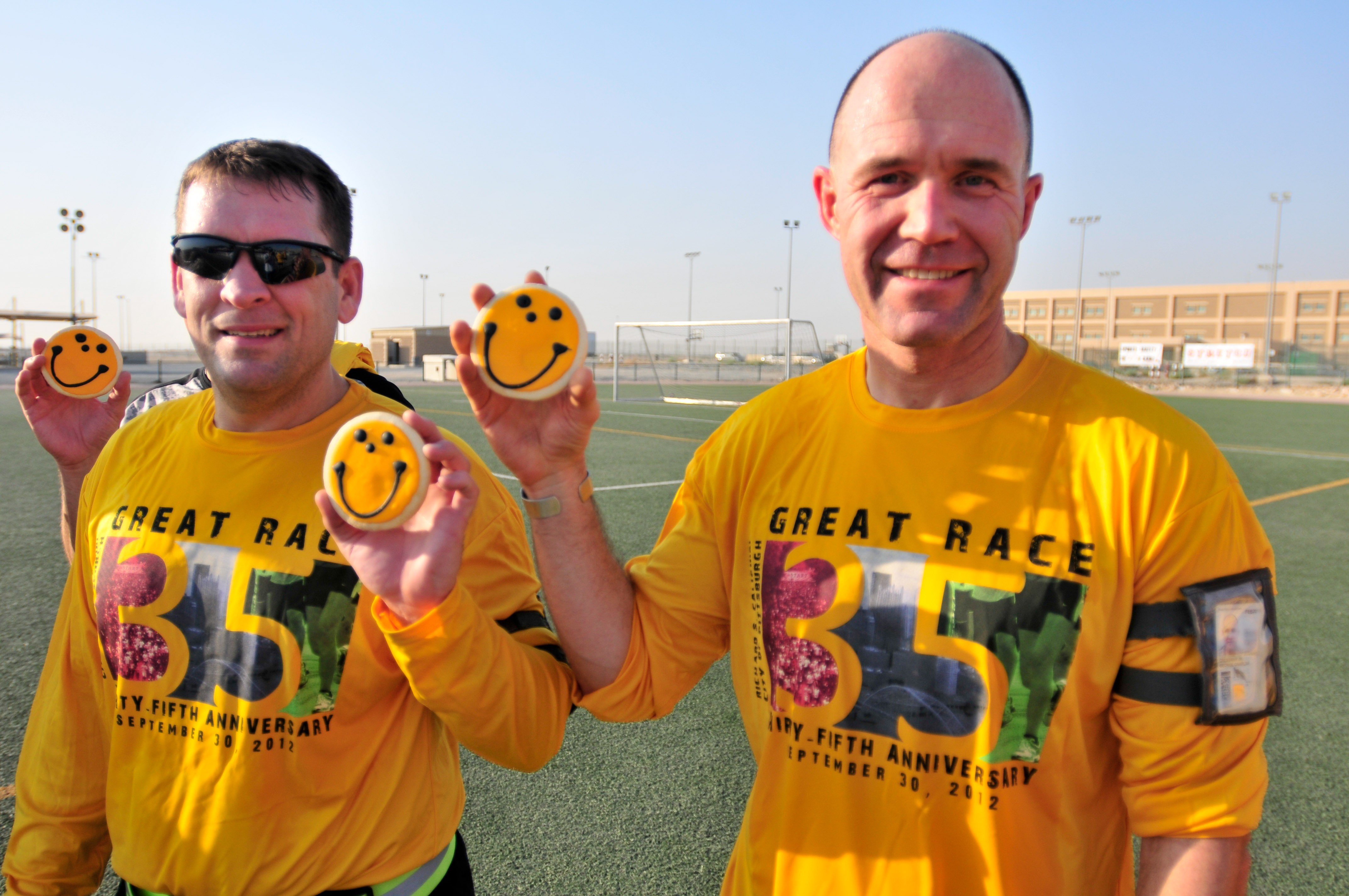 Capt. Edward Quinn and Lt. Col. George Cressman, Army Reservists with the 3rd Medical Command (Deployment Support) hold up their black and gold Pittsburgh Steelers-themed Eat'n Park smiley cookies after they ran 10-kilometers at Camp Arifjan, Kuwait in their version of the "Pittsburgh Great Race" staged every year in Pittsburgh.